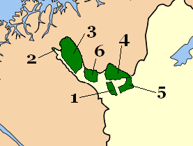 Location of the protected areas in Enontekiö